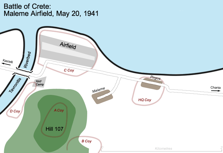 Map of the area around the Maleme airfield, relevant to the Battle of Crete. It was created by myself and